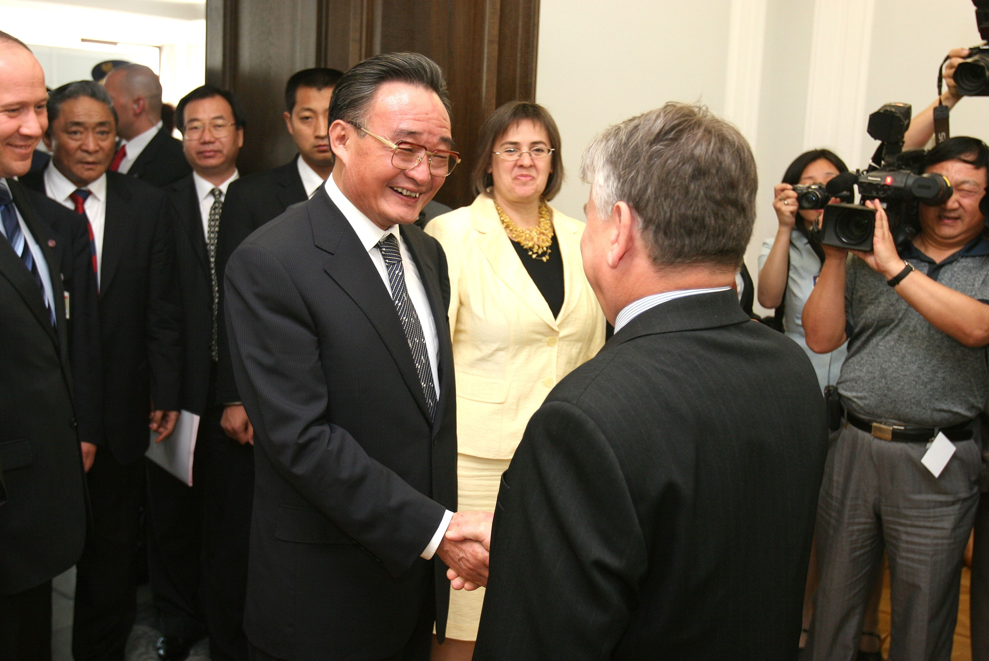 Chairman of the Standing Committee of the National People's Congress Wu Bangguo in the Polish Senate